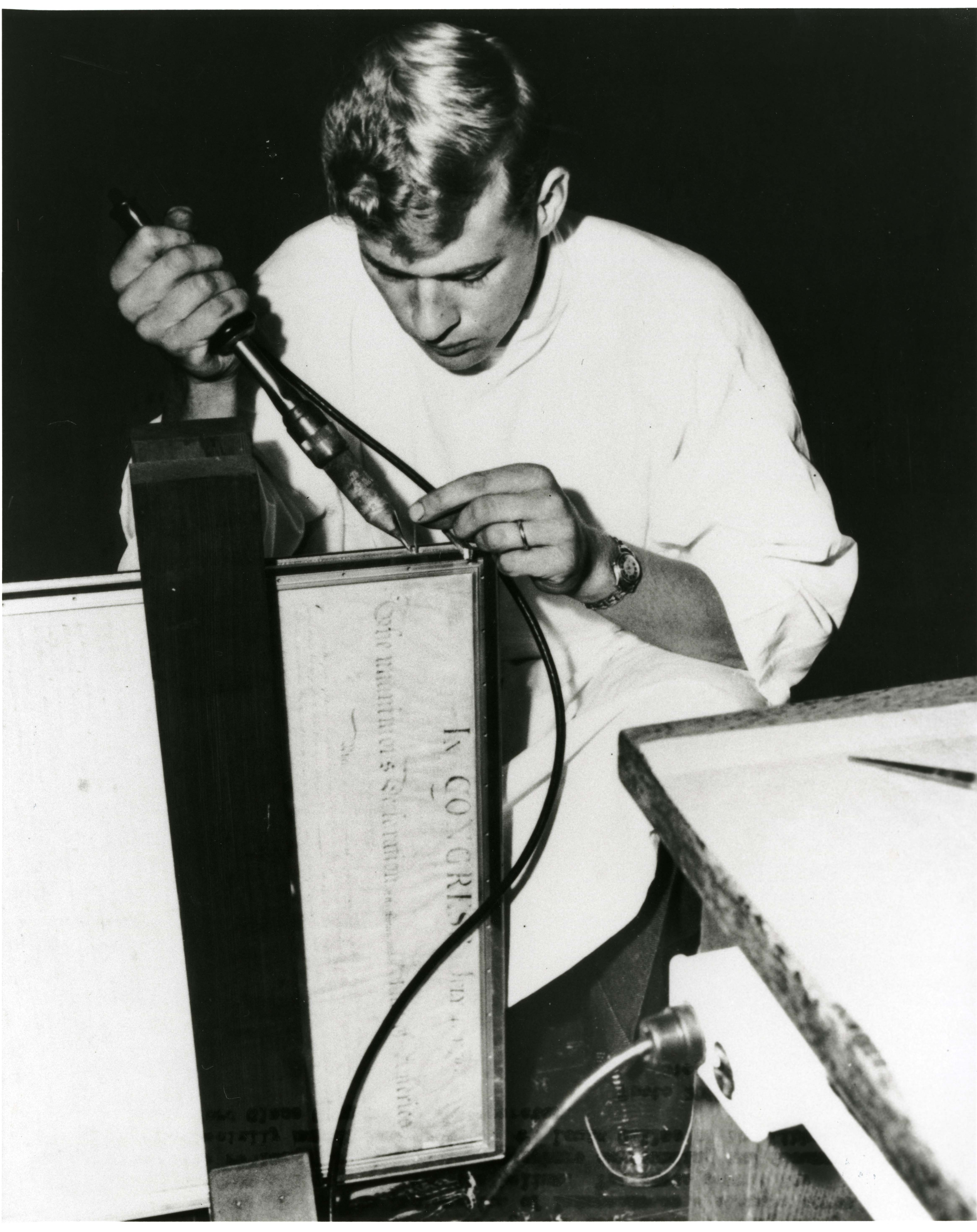 Tubes sealed in holes drilled through the lead strip in diagonally opposite corners of the Declaration of Independence enclosure served as inlet and outlet ports for the helium. The ports permitted the complete replacement of the air atmosphere surrounding the document with specially humidified heliu. Pictured is Louis Gilles of the Libbey-Owens-Ford Glass Company.